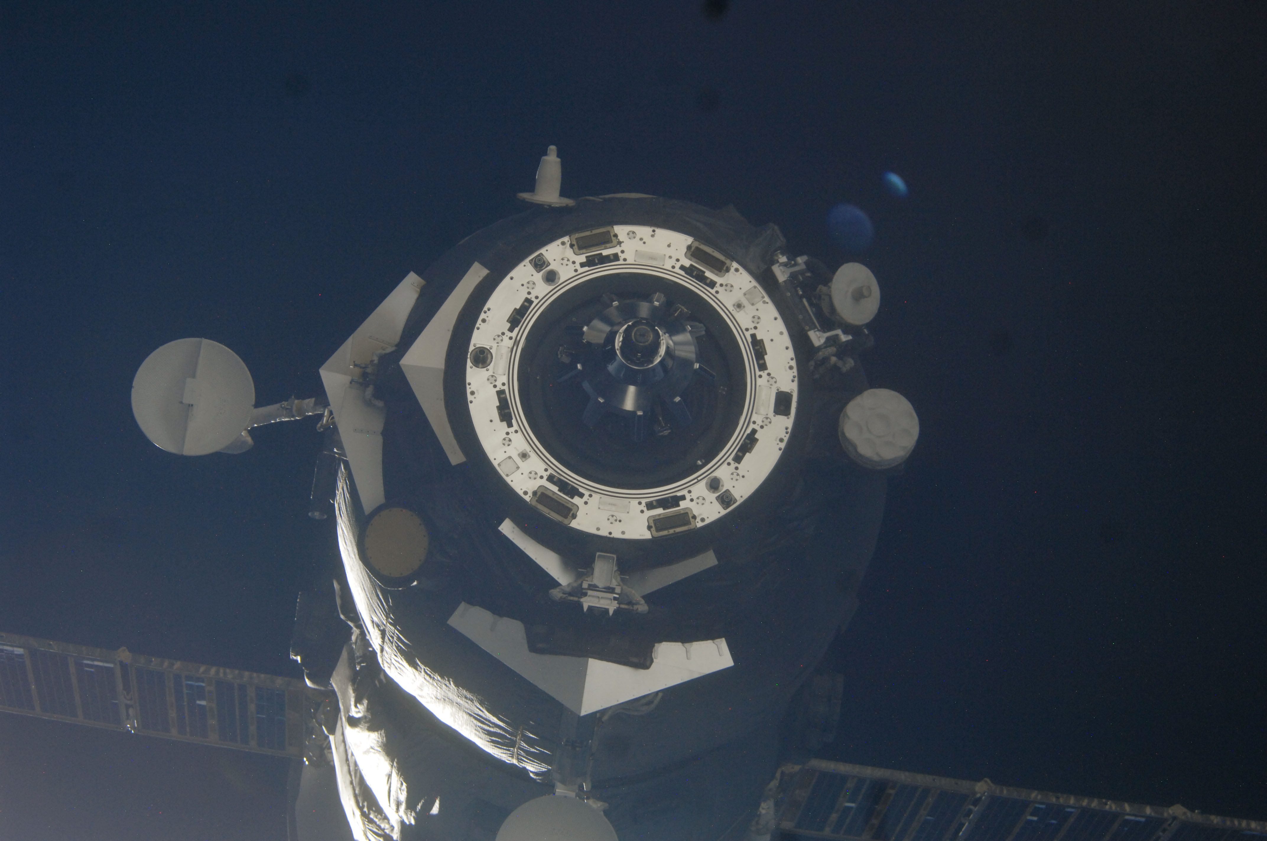 The unpiloted Russian Progress 47 resupply spacecraft temporarily undocks from the Pirs Docking Compartment of the International Space Station on July 22, 2012 in order to perform a series of engineering tests during re-docking designed to verify an upgraded automated rendezvous system that will facilitate future dockings of Russian vehicles to the space station. Progress 47 separated from the station to a distance of about 100 miles and held position for 24 hours. It was to return to the orbiting outpost on 7/23 to perform an automated linkup using a new version of the Kurs rendezvous system, Kurs-NA. However, the re-docking of the Progress 47 to the space station has been postponed due to an apparent failure in the new Kurs-NA rendezvous system. Progress 47 flew approximately 1.8 miles below the station to a safe distance away from the orbiting outpost, where it will remain until another attempt is made to re-rendezvous with the space station.